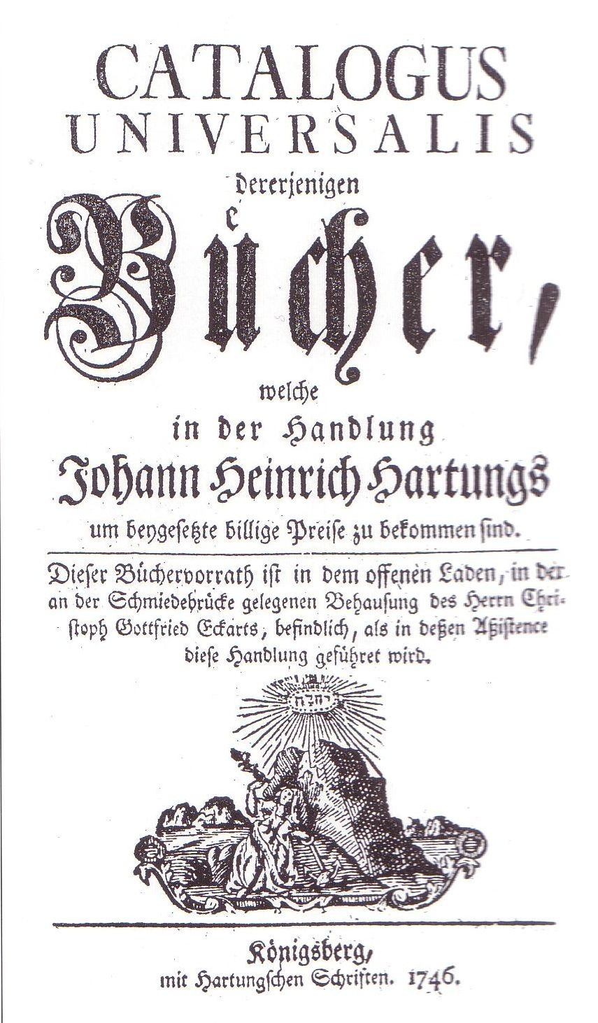 Catalogue cover of Hartung publisher, Königsberg